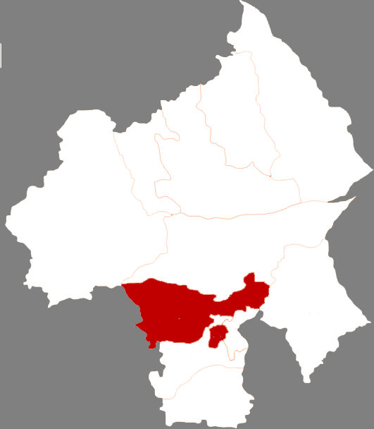 Location of Songshan districtr in Chifeng City, China